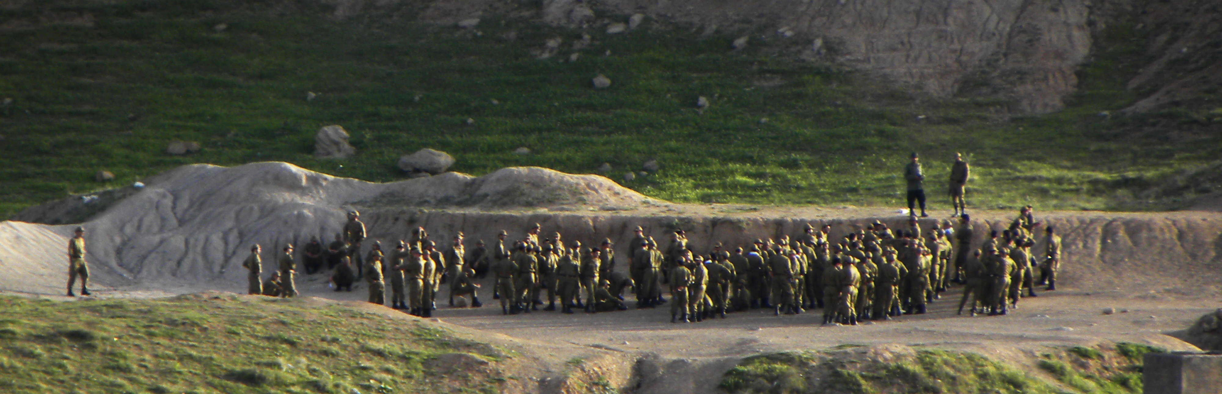 N.A.J.A Soldiers in Nishapur